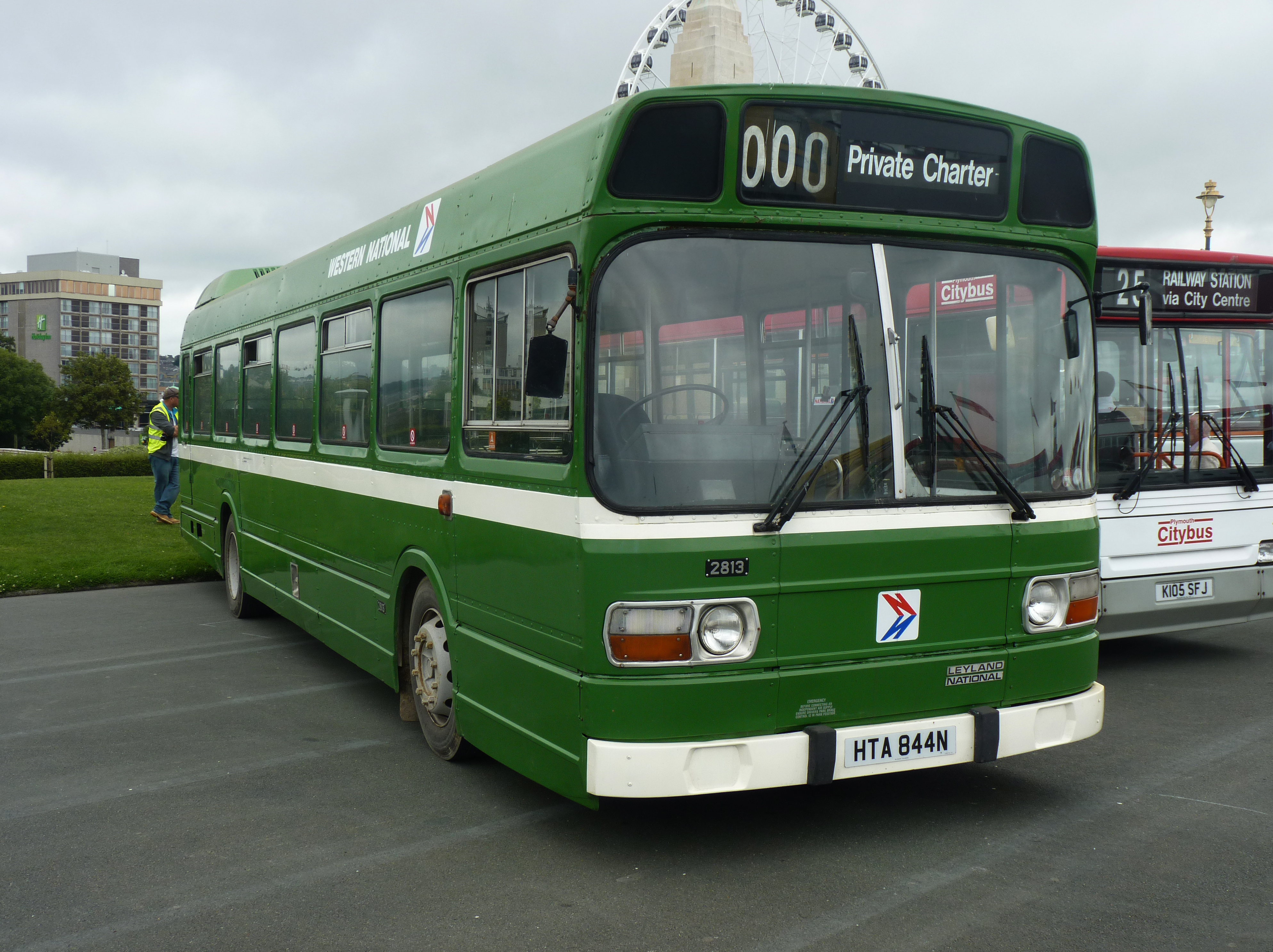 Leyland National